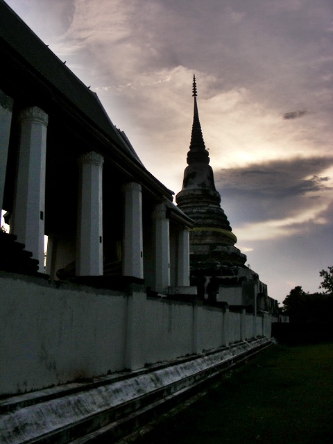 stupa of Wat Phra Fang temple Location: Wat Phra Fang (Wat Phrafangsawangkabureemuneenat) Ban Phra Fang, Pha Juk subdistrict, Mueang Uttaradit, Uttaradit Province, Thailand.